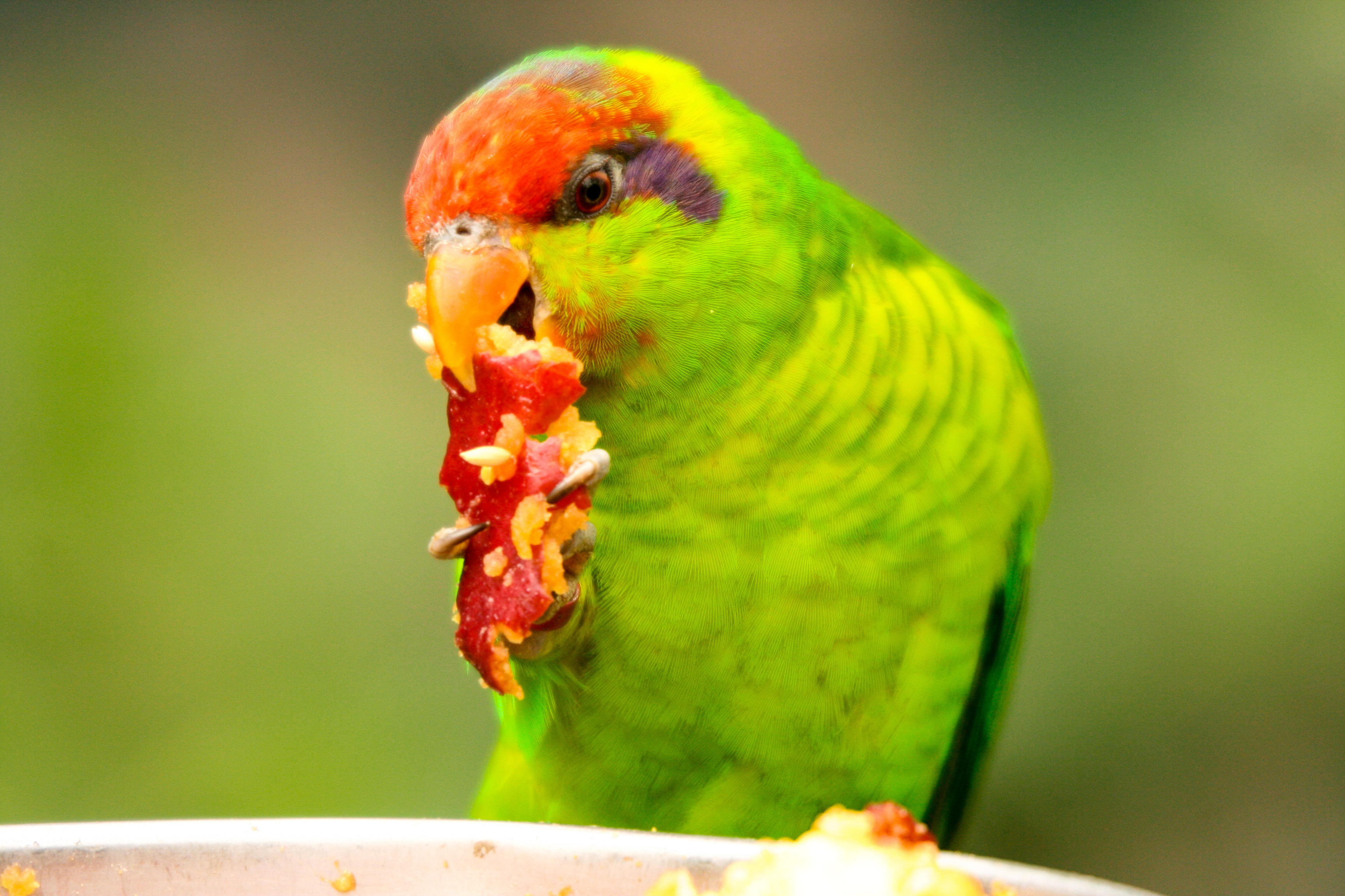 Iris Lorikeet feeding at San Diego Zoo.